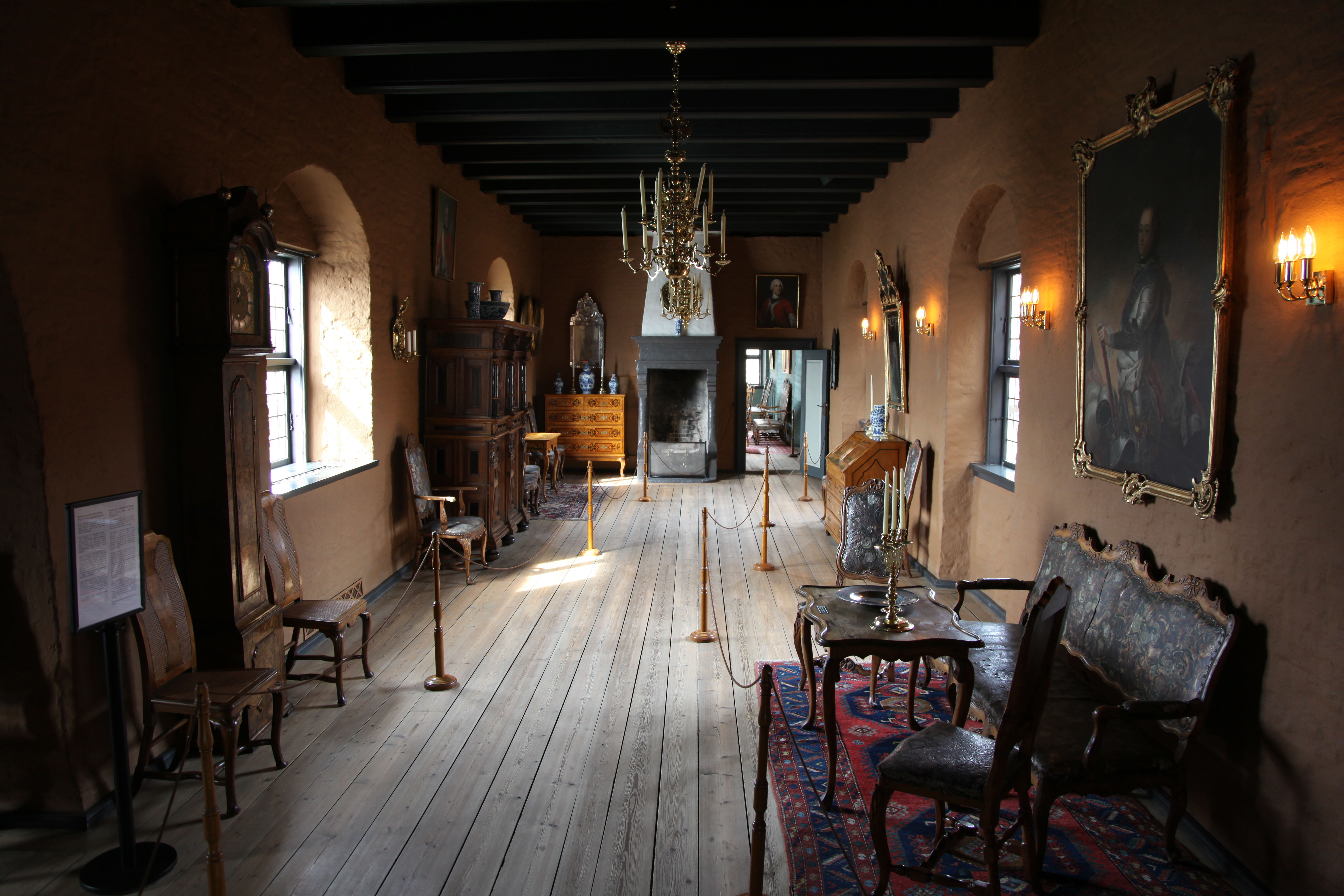 Akershus Castle. South Scribes' room (The Prince's room).